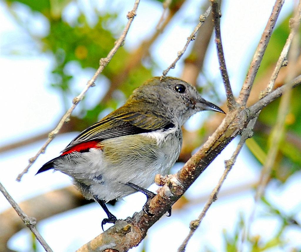 Scarlet-backed Flowerpecker (Female) (Dicaeum cruentatum)